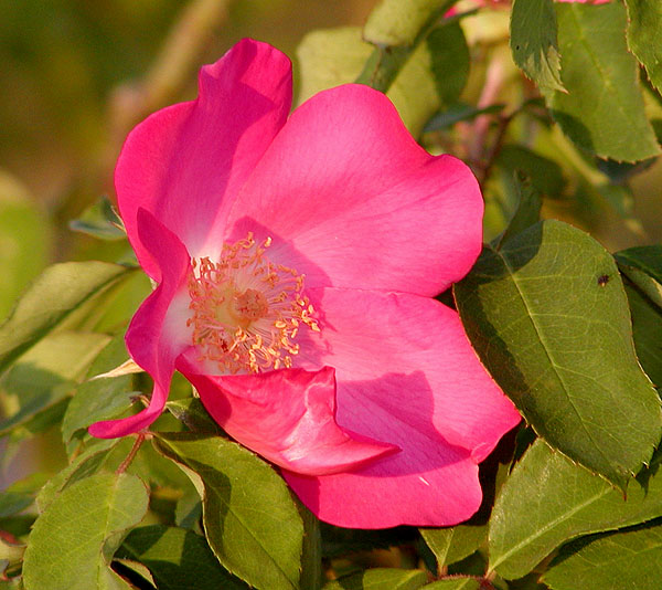 Photo of Rosa 'Schoener's Nutkana' at the San Jose Heritage Rose Garden